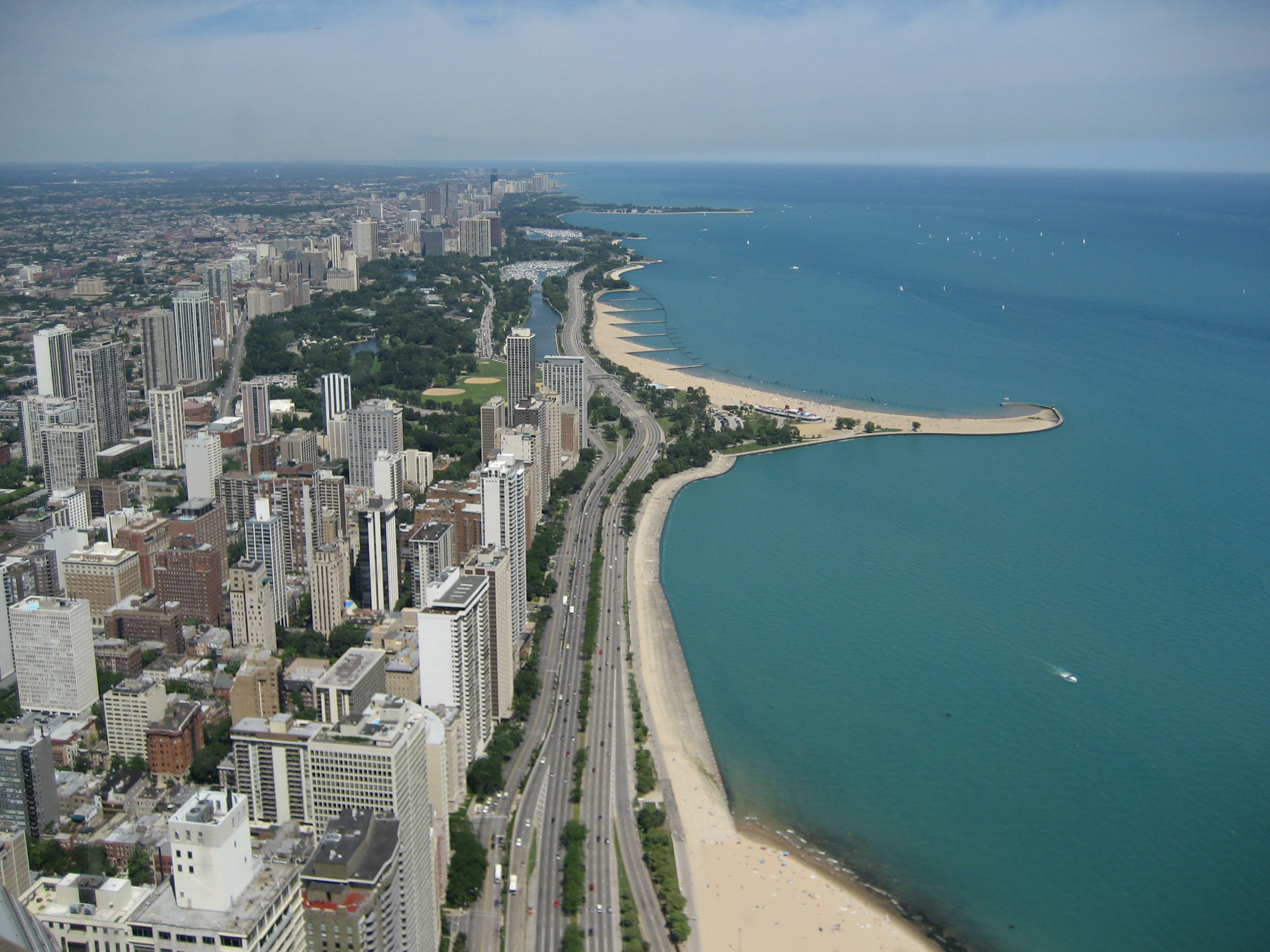 Chicago the city and the lake